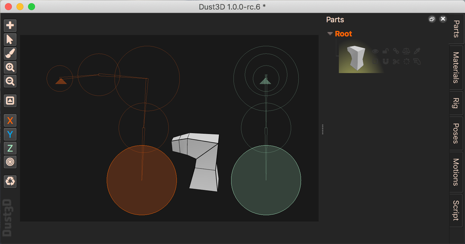 Screenshot of Dust3D modeling software. The 3D object is automatically generated based on the side and front diagrams made of connected circles which determine the path and width for the extrusion.